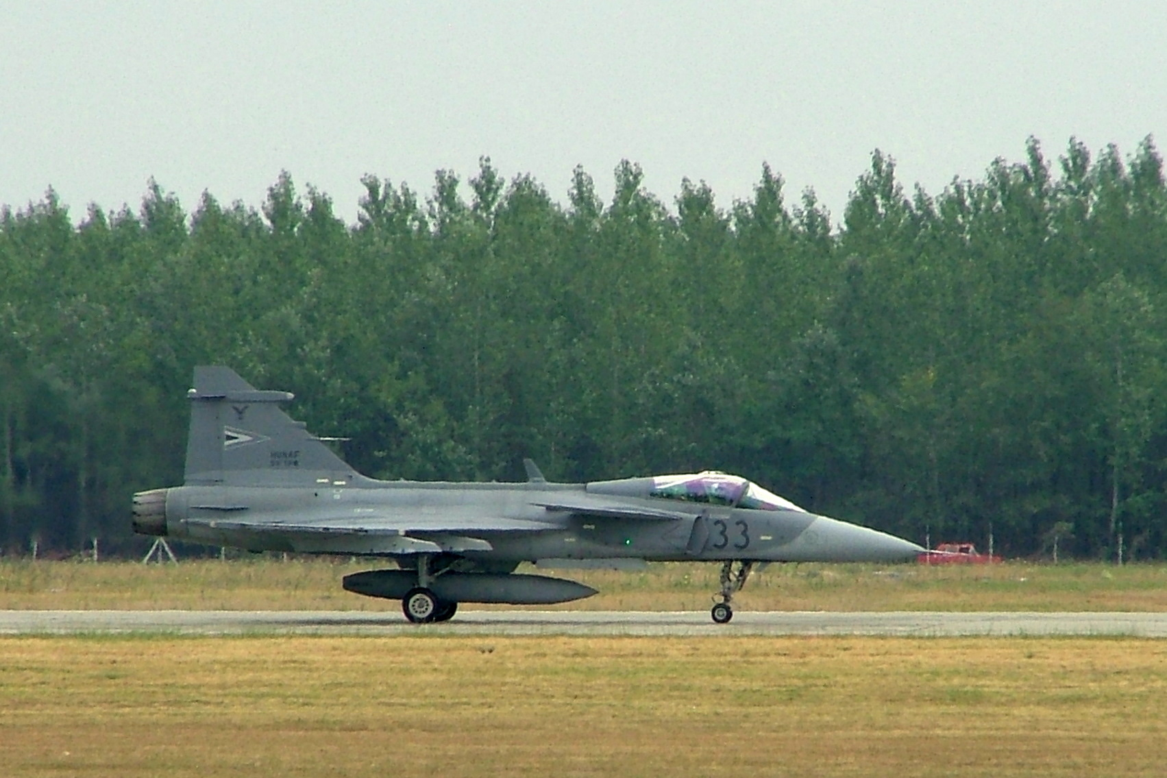 JAS 39 Gripen of the Hungarian Air Force at Kecskemét Open Day 2007. Note the opened refuelling probe.